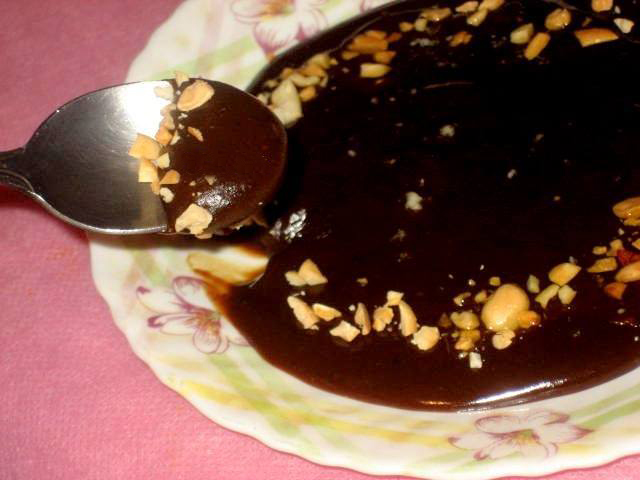 Bekmez, Doshab